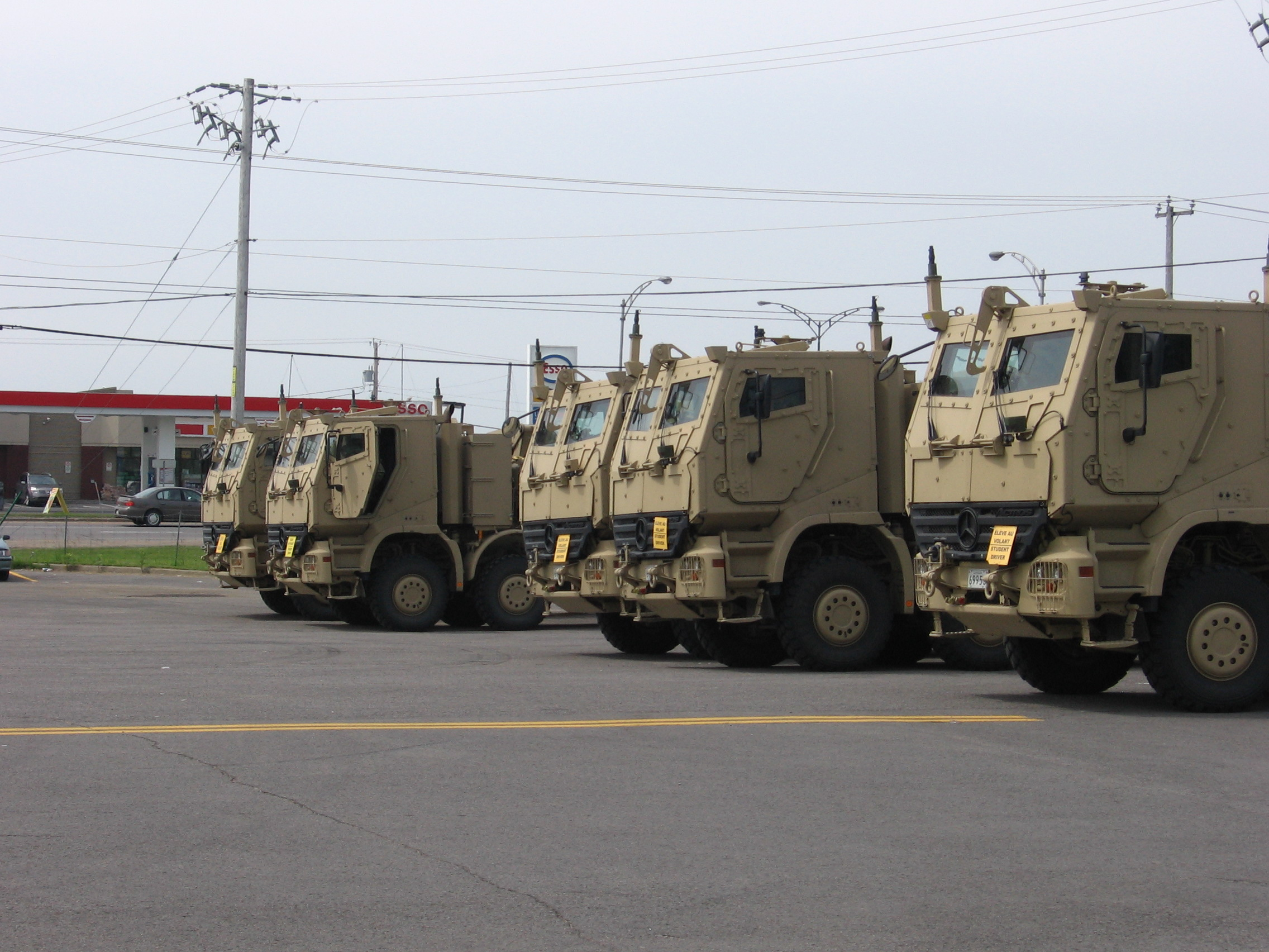 Valcartier military trucks (Mercedes-Benz Actros Armoured Heavy Support Vehicle System)